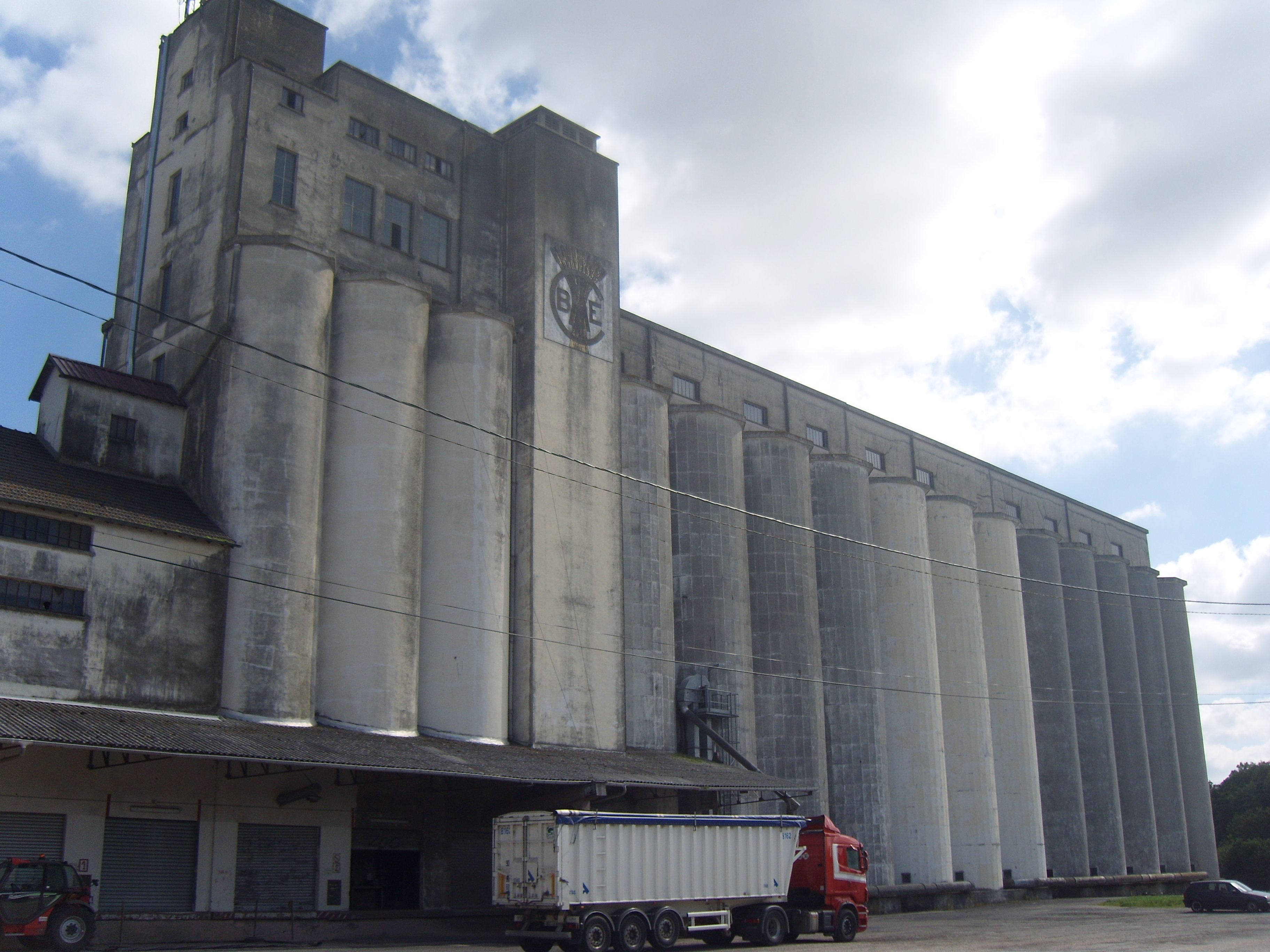 Grain elevator of Jouy-le-Châtel